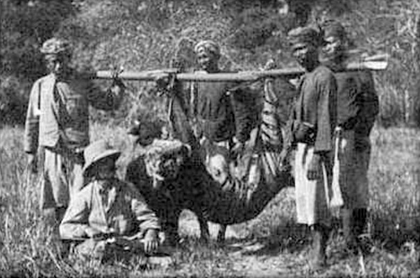 Balinese Tiger shot by Hungarian baron Oskar Vojnich 3 Nov. 1911